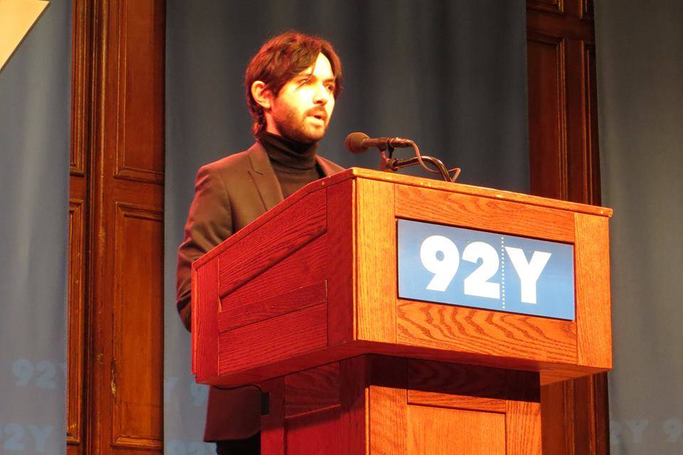 Alex Dimitrov reads at the 92nd Street Y